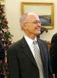 Finn E. Kydland at the White House, 1 Dec. 2004